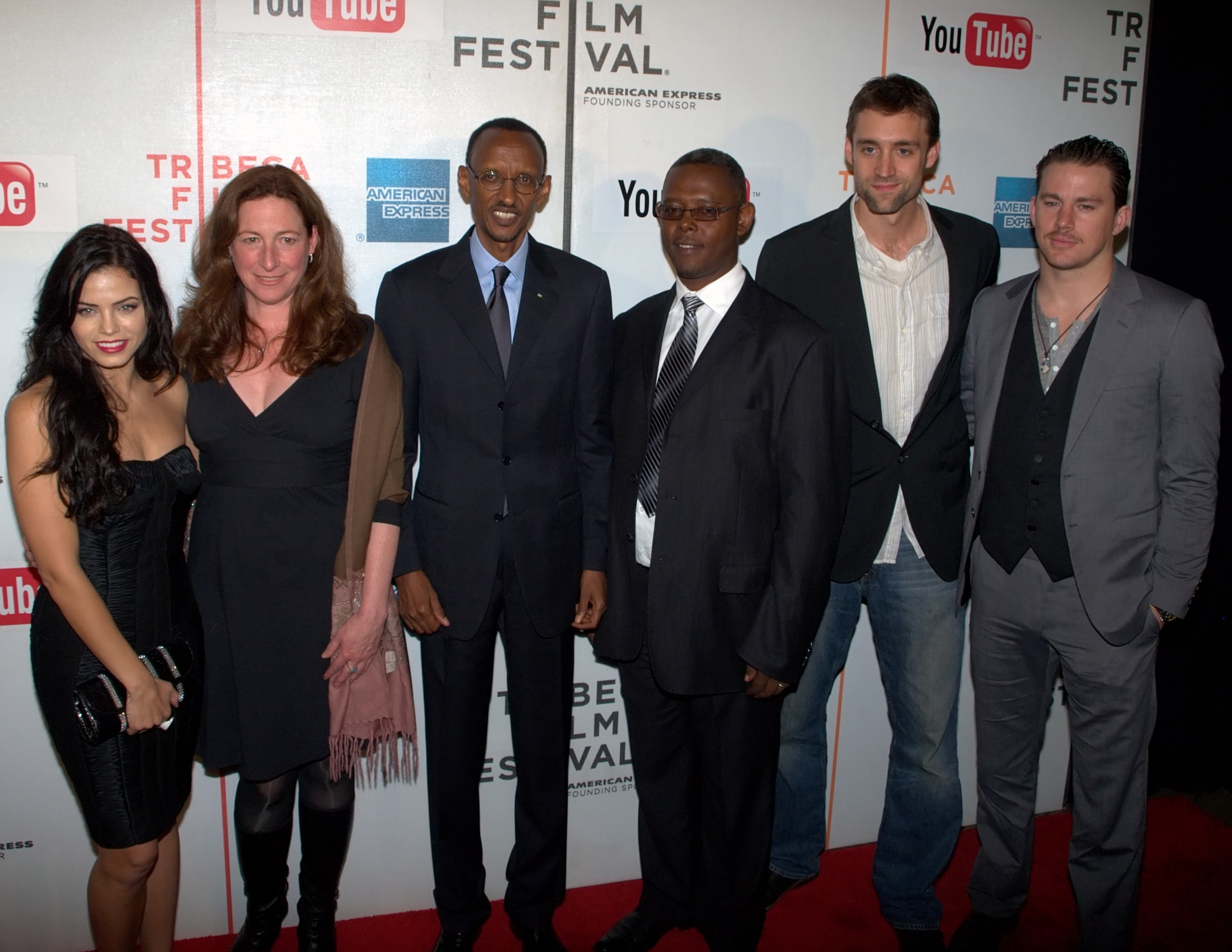 Jenna Dewan, Deborah Scranton, Rwandan President Paul Kagame, documentary subject Jean Pierre Sagahutu, producer Reid Carolin and executive producer Channing Tatum attend the premiere of “Earth Made of Glass” during the 2010 Tribeca Film Festival on Monday, April 26, in New York.